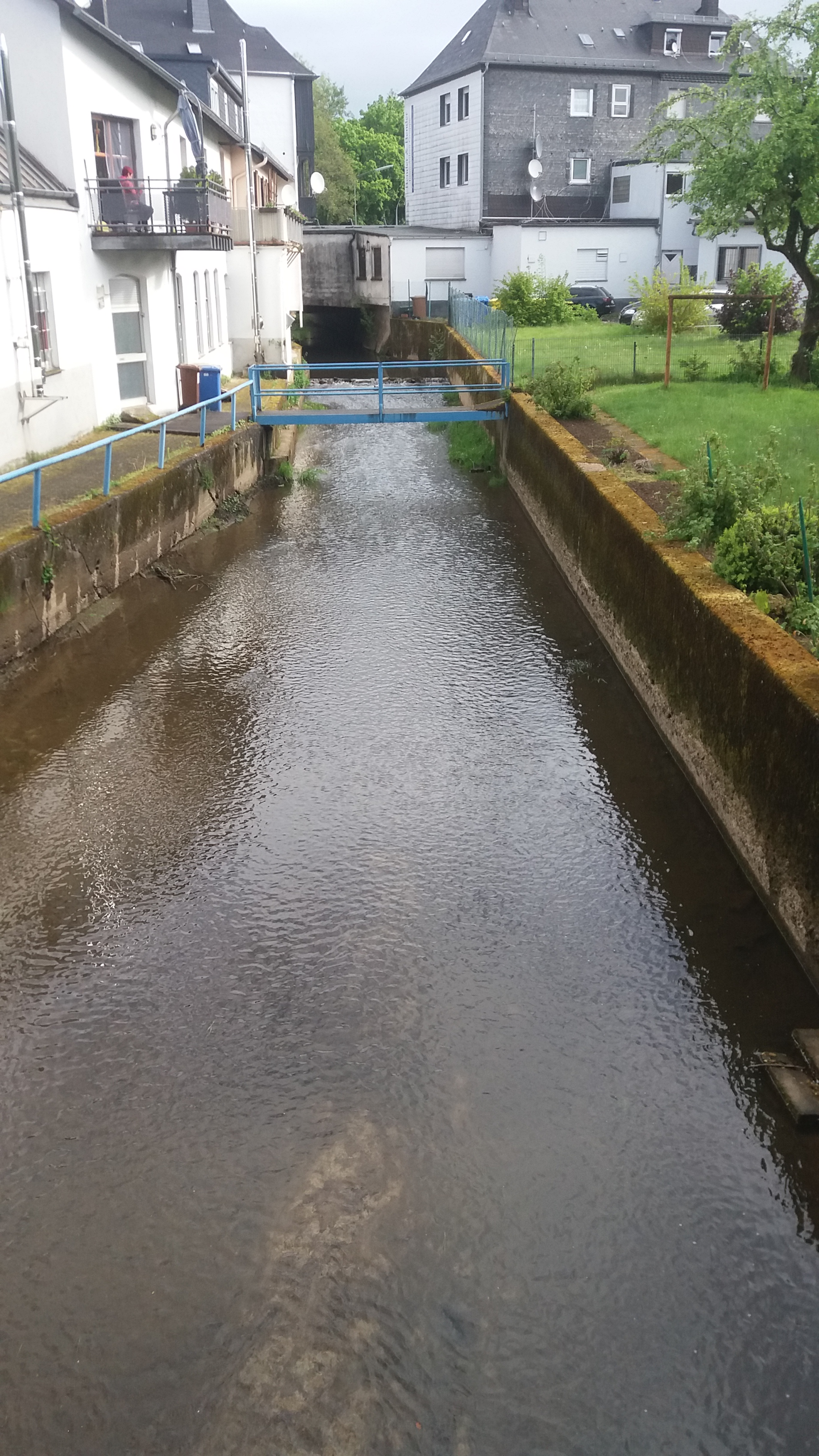 Erbach (Quengelbach) at Altenkirchen